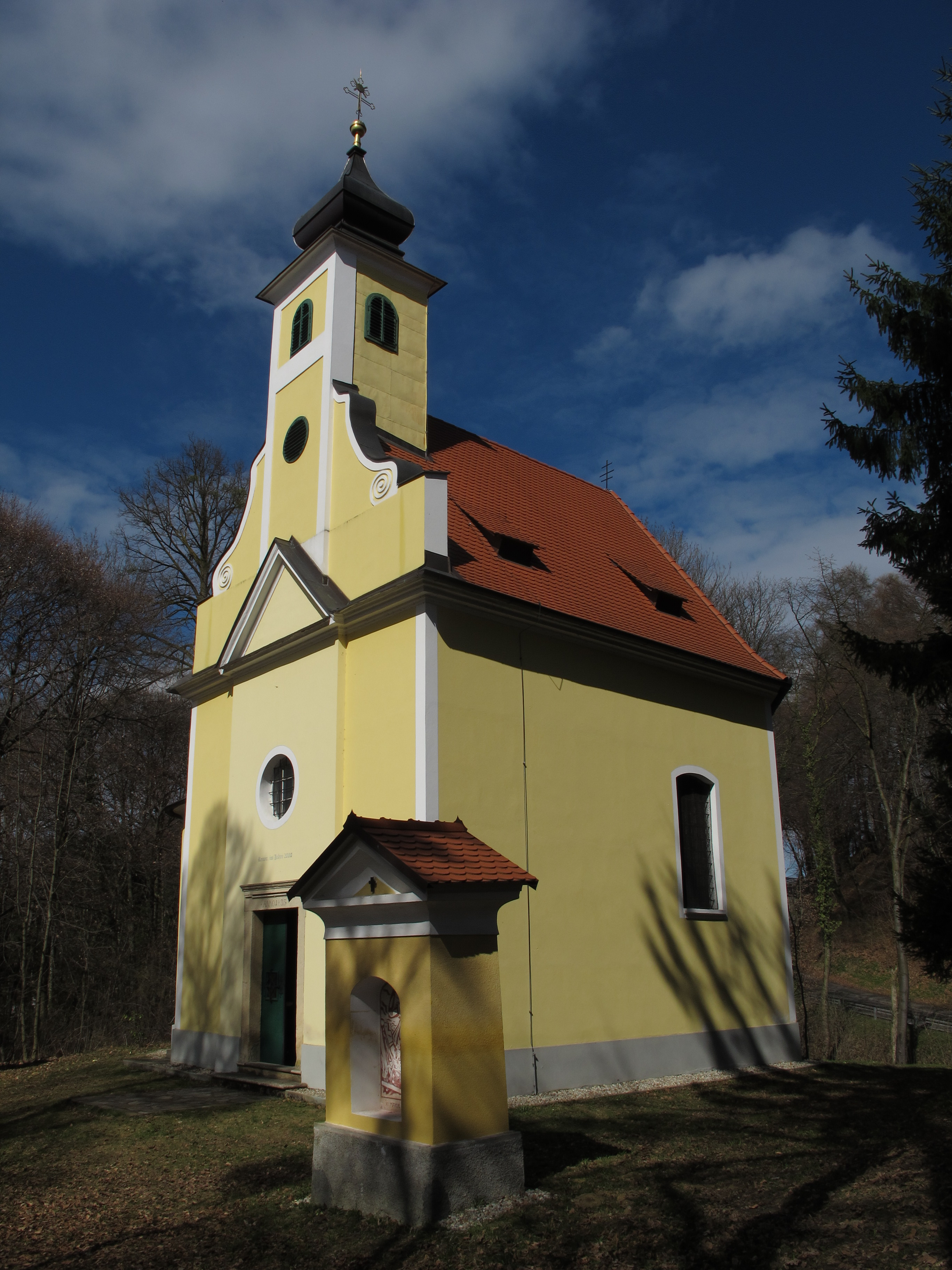 Kirche Kalvarienberg Gnas